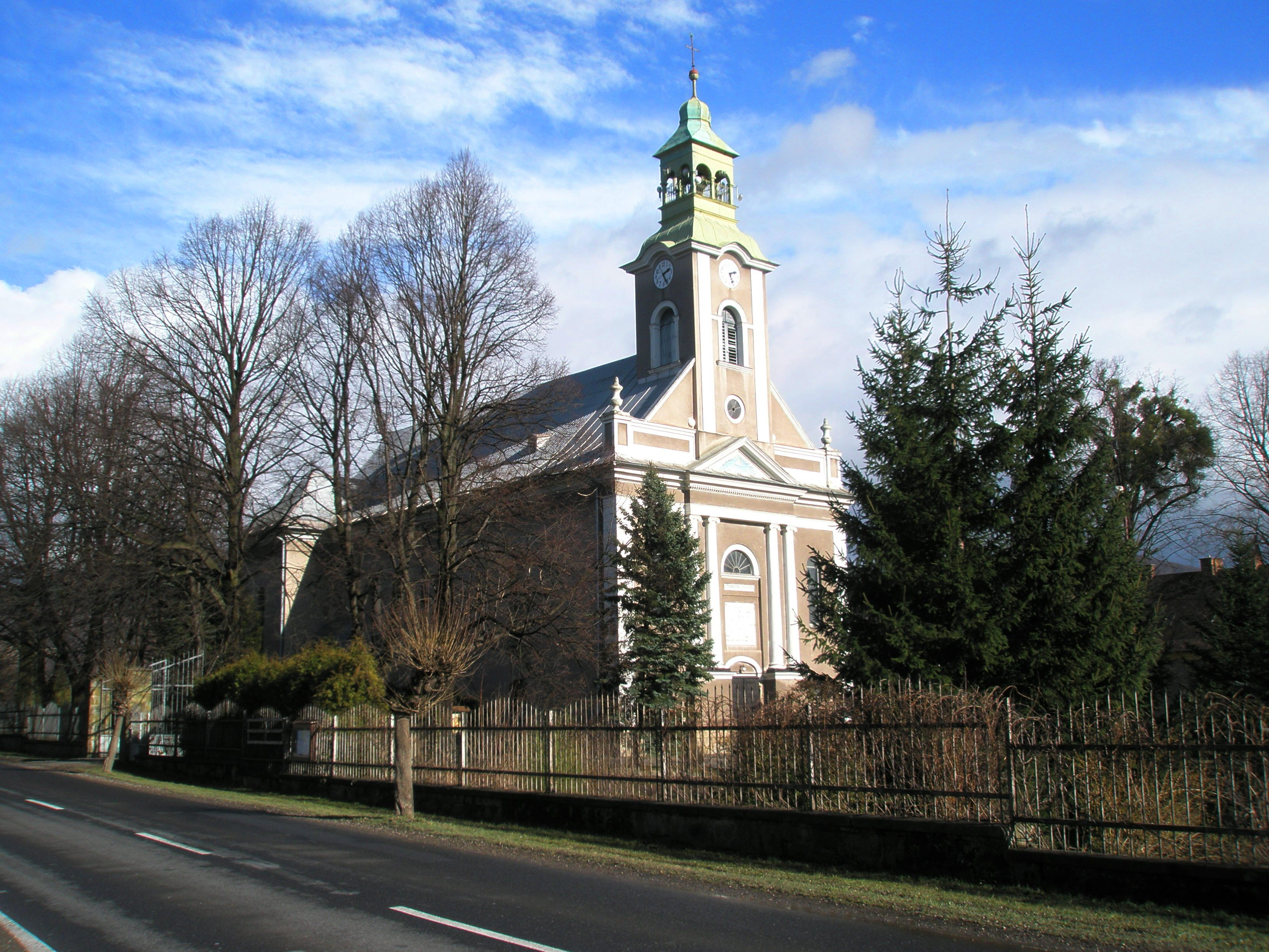 Lutheran Church in Bystřice, Frýdek-Místek District, Czech Republic